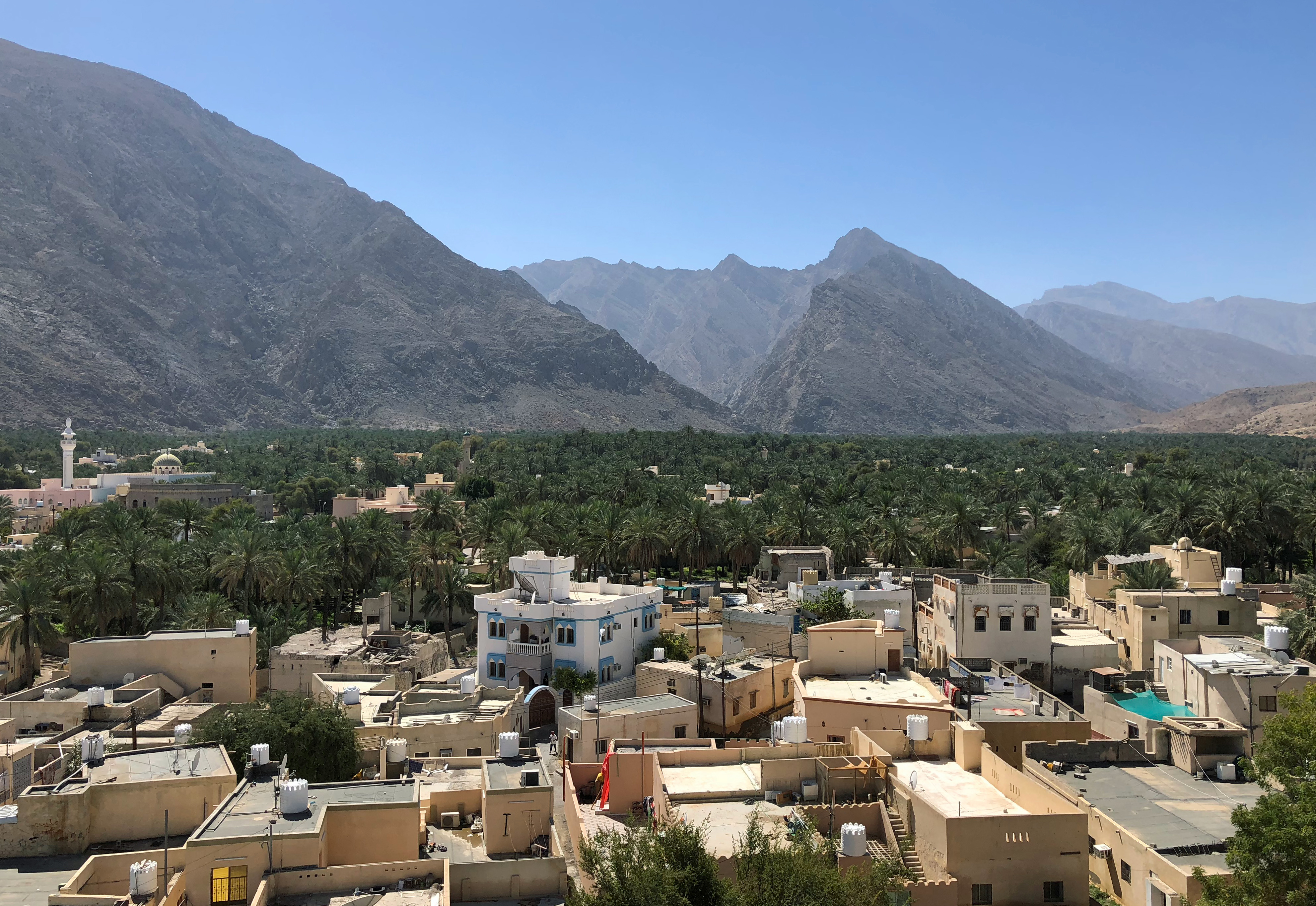 Nakhl, view from the fort South over the oasis to the mountains